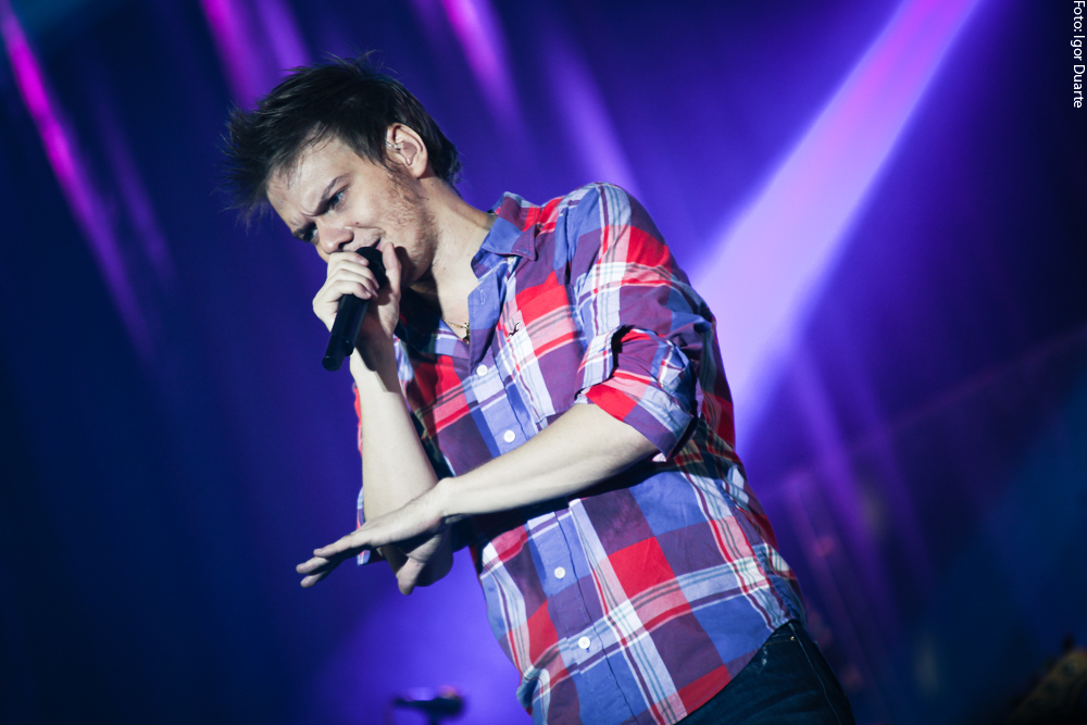 Michel Teló at Itabuna-SP, Brazil.